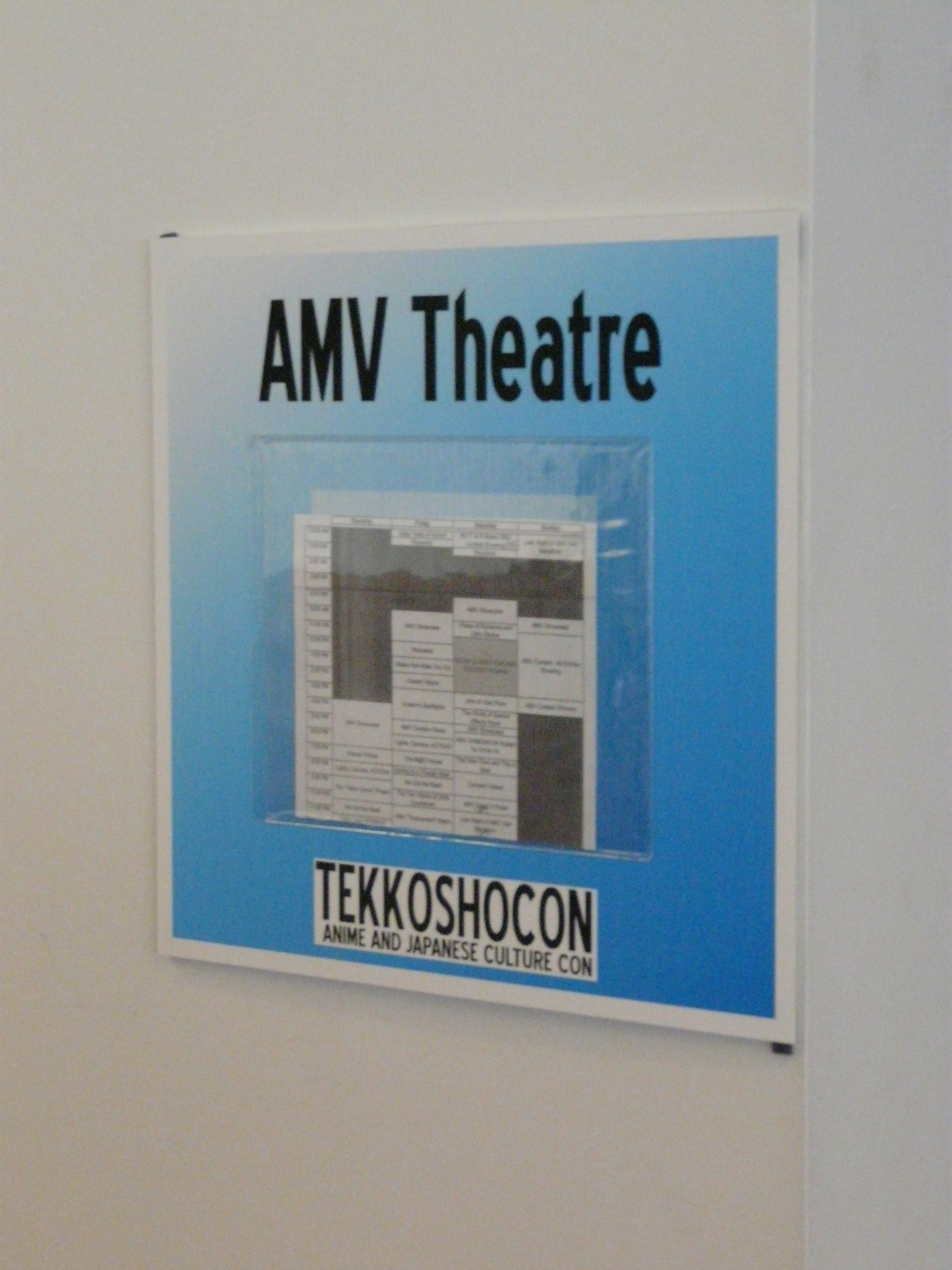 Tekkoshocon at David L. Lawrence Convention Center (2010) AMV Theatre